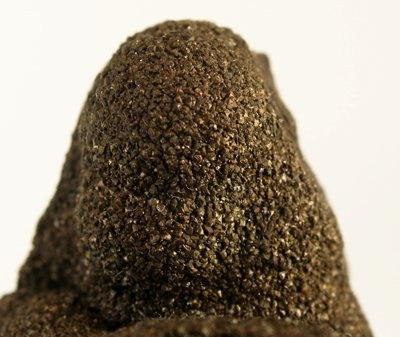 Arsenic Locality: Mt Washington mine, Comox District, Vancouver Island, Nanaimo Mining Division, British Columbia, Canada (Locality at ) Size: 4.6 x 3.0 x 2.9 cm. A fine specimen of bubbly, botryoidal, grayish-brown, massive native arsenic covered with lustrous, bronze-colored, rhombohedral, native arsenic microcrystals from an uncommon for the species Canadian locale - the Mt. Washington Mine, Vancouver Island, British Columbia. This mine was active from 1964-67. Weighs 59 grams.